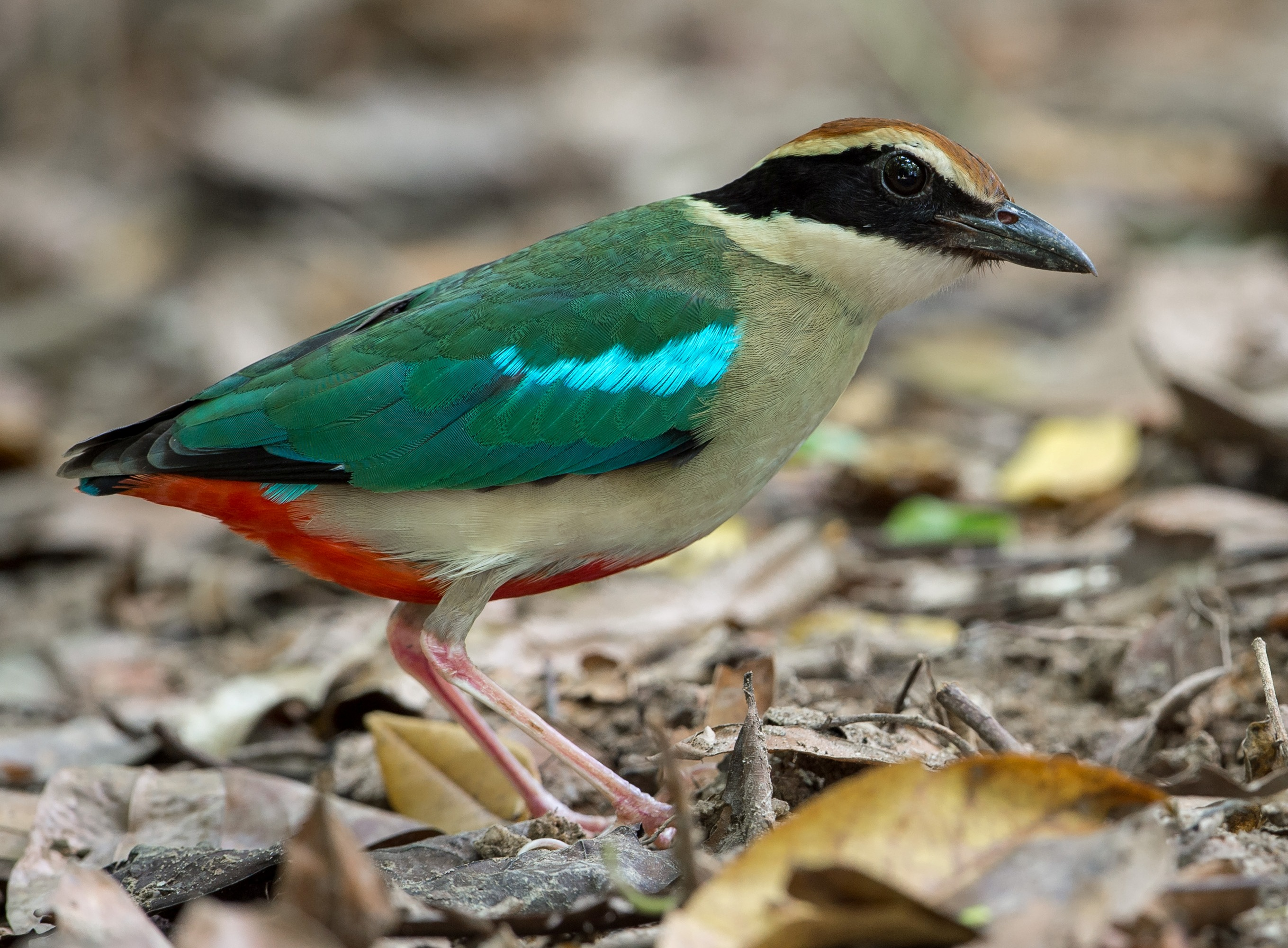 Fairy Pitta (Pitta nympha) at Koh Man Nai, Gulf of Thailand